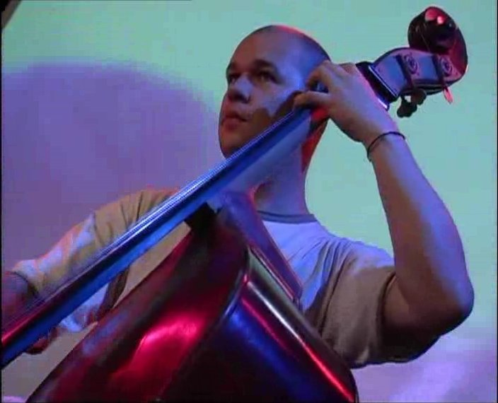 Vitaly Didyk, ex-contrabass player and bass-guitarist of Flëur